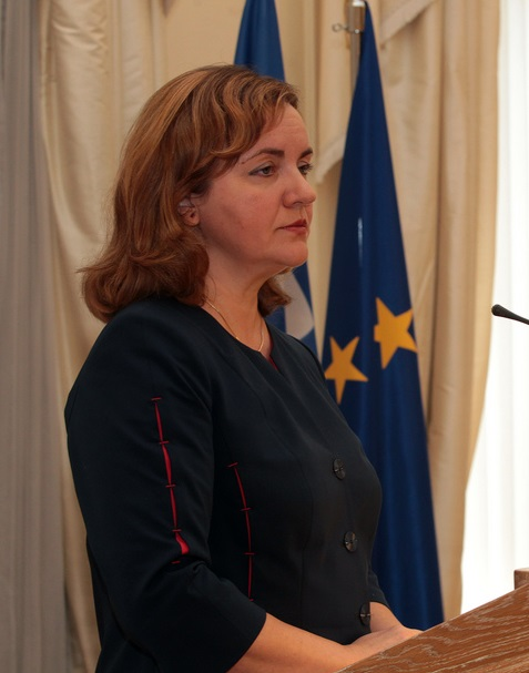 Ο αντιπρόεδρος της Κυβέρνησης και υπουργός Εξωτερικών, Ευάγγελος Βενιζέλος και η αντιπρόεδρος της Κυβέρνησης και υπουργός Εξωτερικών&Ευρωπαϊκής Ολοκλήρωσης της Μολδαβίας, Natalia Gherman κάνουν δηλώσεις στα ΜΜΕ μετά την συνάντηση και την υπογραφή συμφωνίας, Τετάρτη 15 Οκτωβρίου 2014. Με την αντιπρόεδρο της Κυβέρνησης και υπουργό Εξωτερικών&Ευρωπαϊκής Ολοκλήρωσης της Μολδαβίας, Natalia Gherman συναντήθηκε στο υπουργείο ο αντιπρόεδρος της Κυβέρνησης και υπουργός Εξωτερικών, Ευάγγελος Βενιζέλος. ΑΠΕ-ΜΠΕ/ΑΠΕ-ΜΠΕ/ΠΑΝΤΕΛΗΣ ΣΑΙΤΑΣ